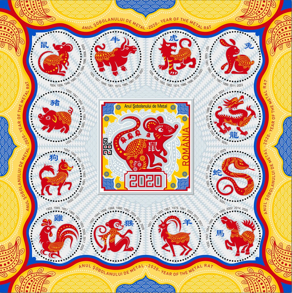 Year-of-the-Rat-2020